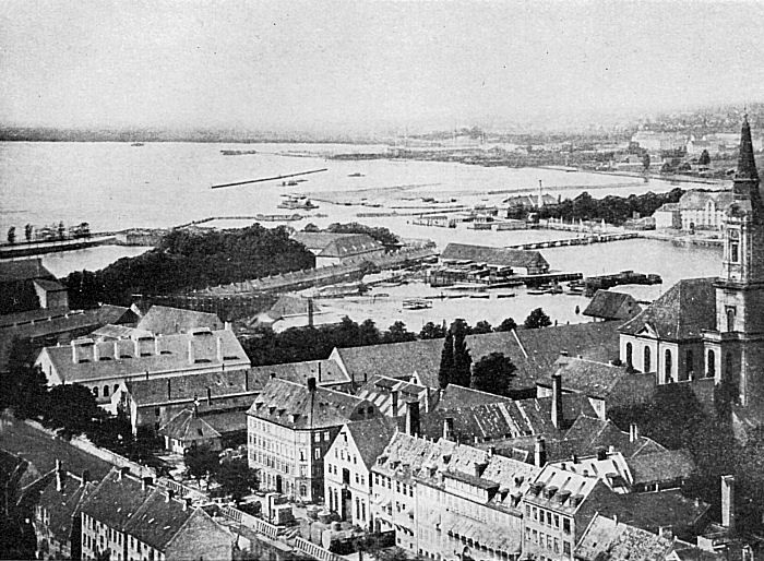 Kalveboderne in 1872 viewed from Vor Frelsers Kirke (Our Saviour's Church) in Copenhagen, Denmark